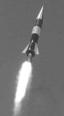 Egyptian al-Kaher-1 in air